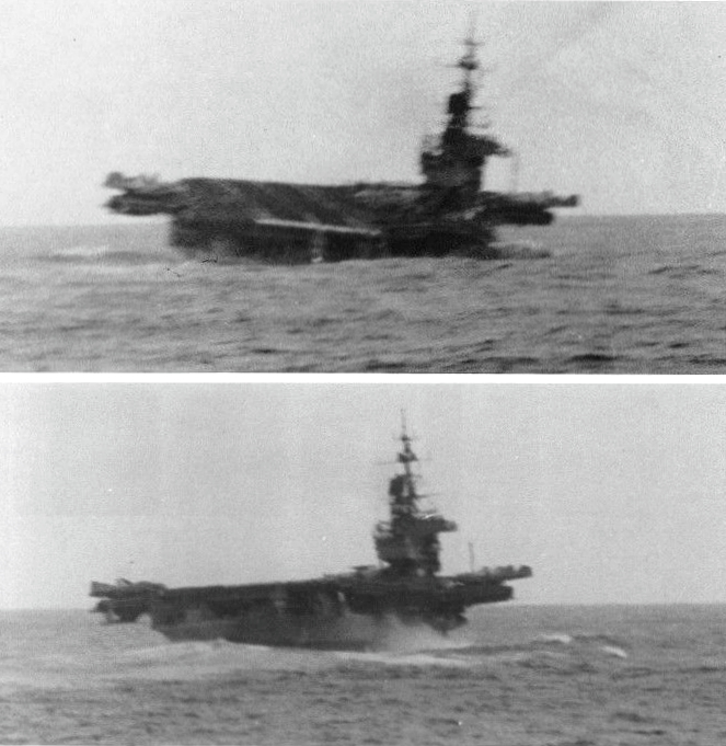 The U.S. Navy aircraft carrier USS Midway (CV-41) rolling in moderate seas during sea trials, in late 1986. During her 1986 refit (named "Extended Incremental Selected Repair Availability"), blisters had been added that seriously affected the ship's stability. She took water over the flight deck during excessive rolls in moderate seas, thereby hampering flight operations. Before another $138 million refit was approved to rectify the stability problems, it was even proposed to decommission Midway. Nevertheless, she had earned herself the nickname "Rock'n Roll carrier".